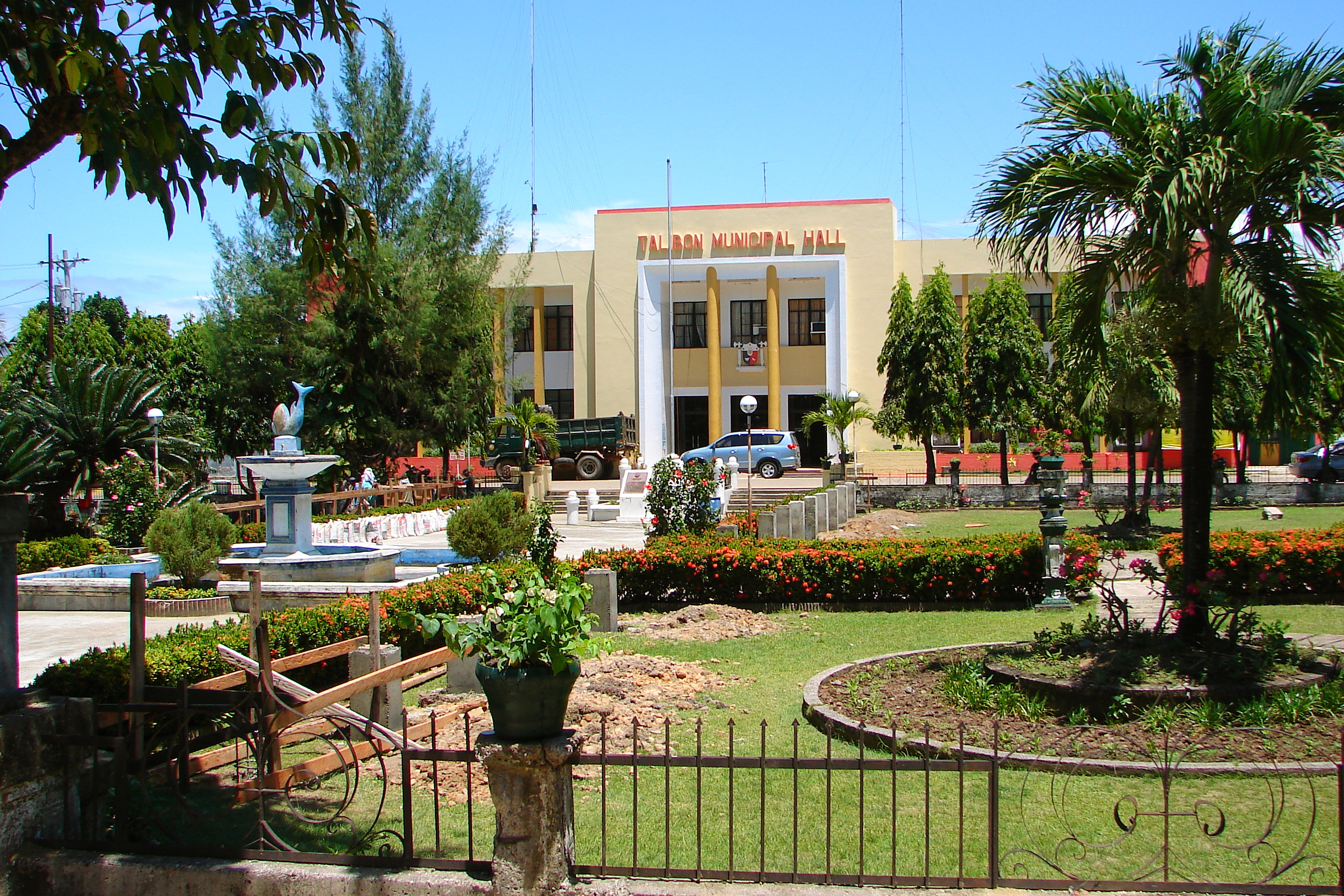 Municipal Hall of Talibon, Bohol, Philippines